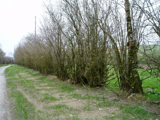 Coppiced hedge. Old hazel hedge which has been coppiced. Coppicing is the cutting off of trees near to ground level to stimulate them into producing a great number of new shoots, which are harvested for use in traditional woodland produce.